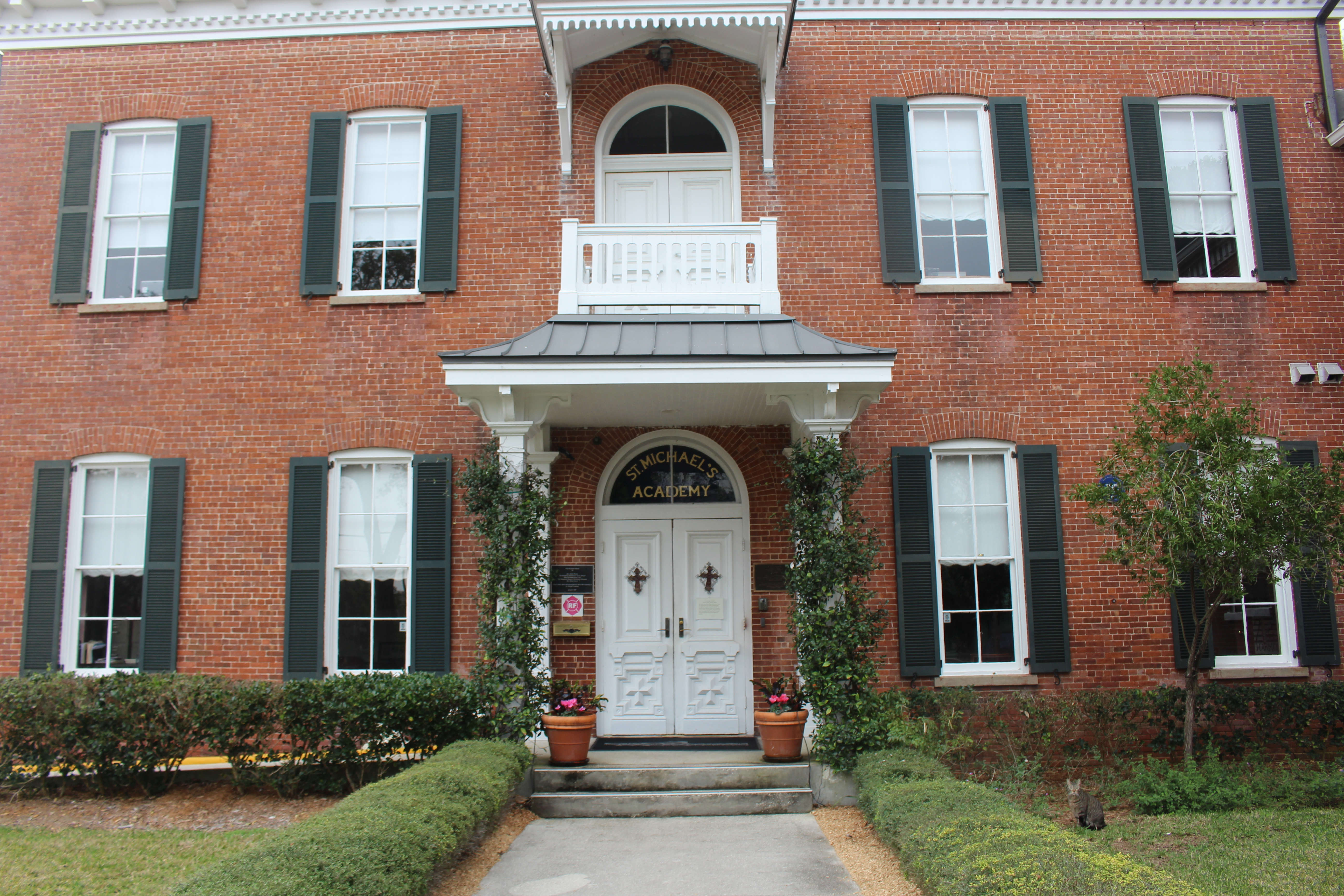 Fernandina Beach, Nassau County, Florida